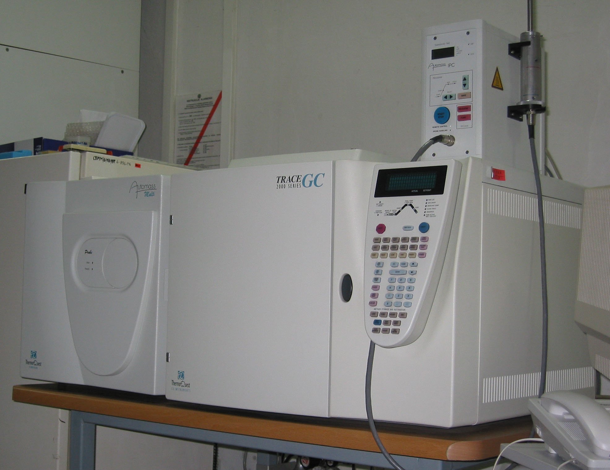 GCMS with closed door - (ThermoQuest Trace GC 2000). The apparatus is the property of CBMiM PAN